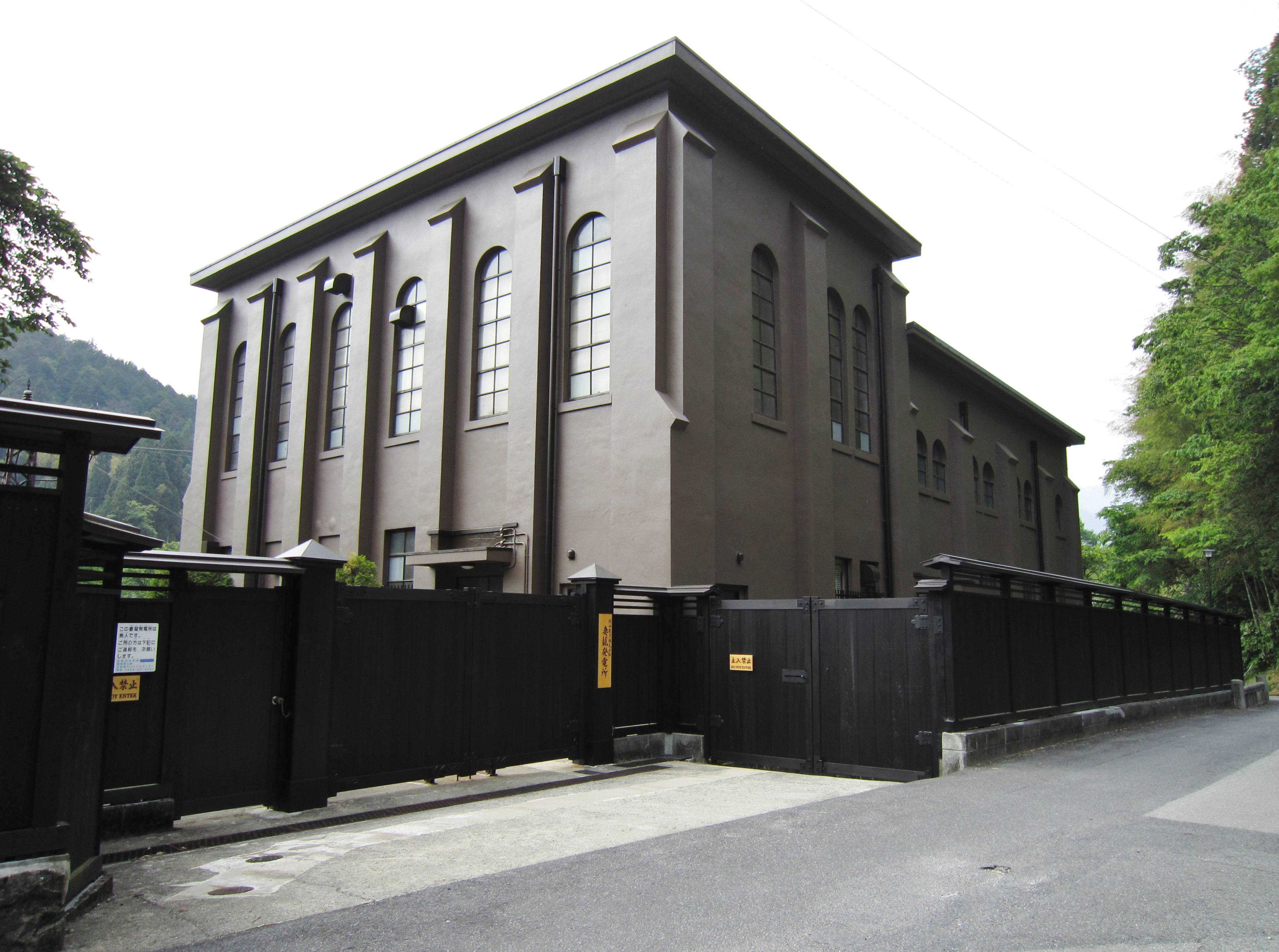 Tsumago power station.